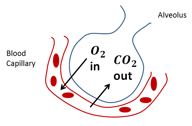 Gas exchange in humans - between a capillary and an alveolus